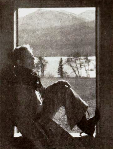 Still from the American silent western film Bob Hampton of Placer (1921) with James Kirkwood, on page 76 of the March 12, 1921 Exhibitors Herald.